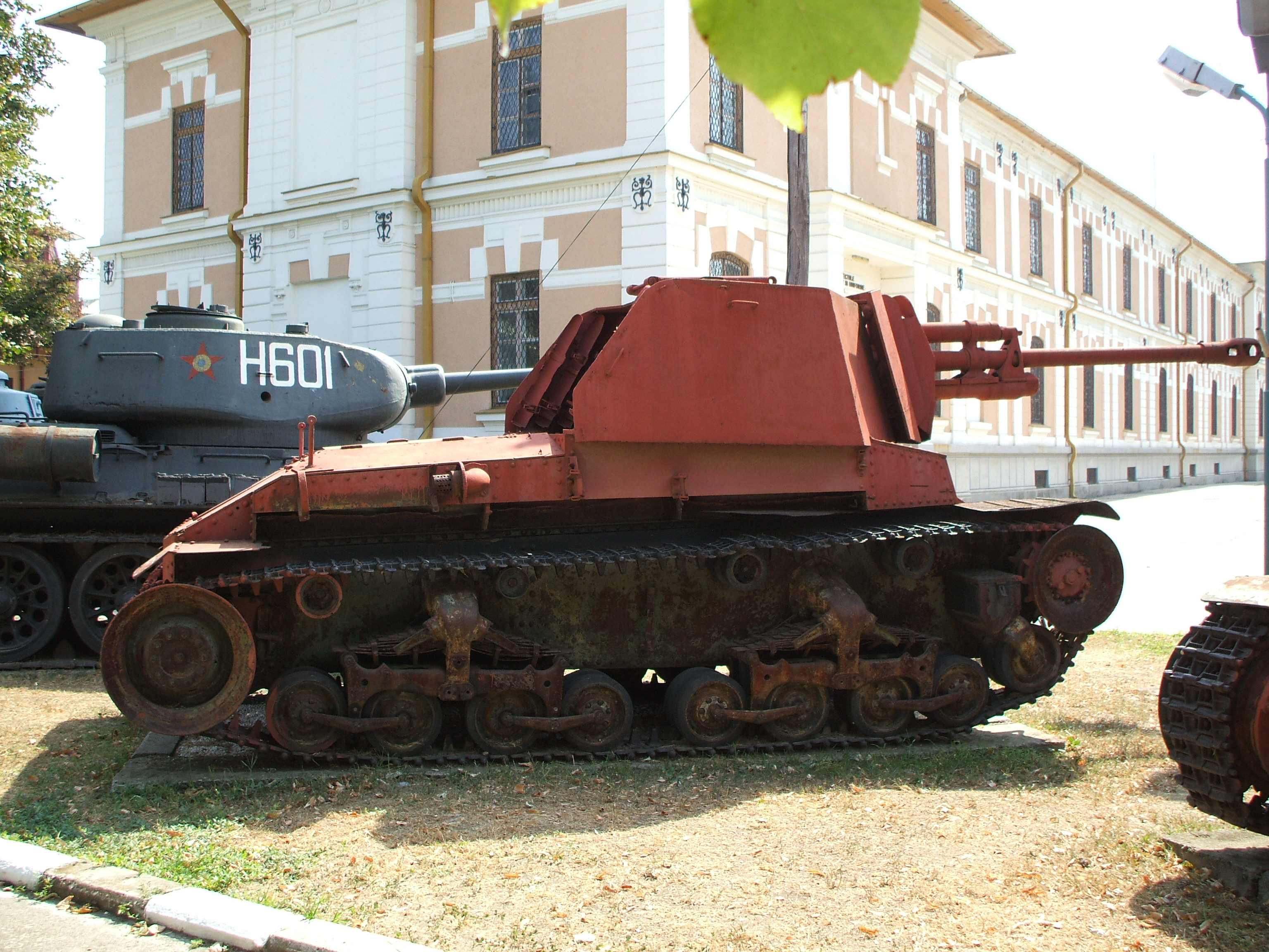 A Romanian TACAM R-2 tank destroyer on display at "King Ferdinand" National Military Museum in Bucharest. (side view)